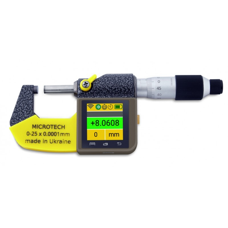 Computerized micrometer by MICROTECH